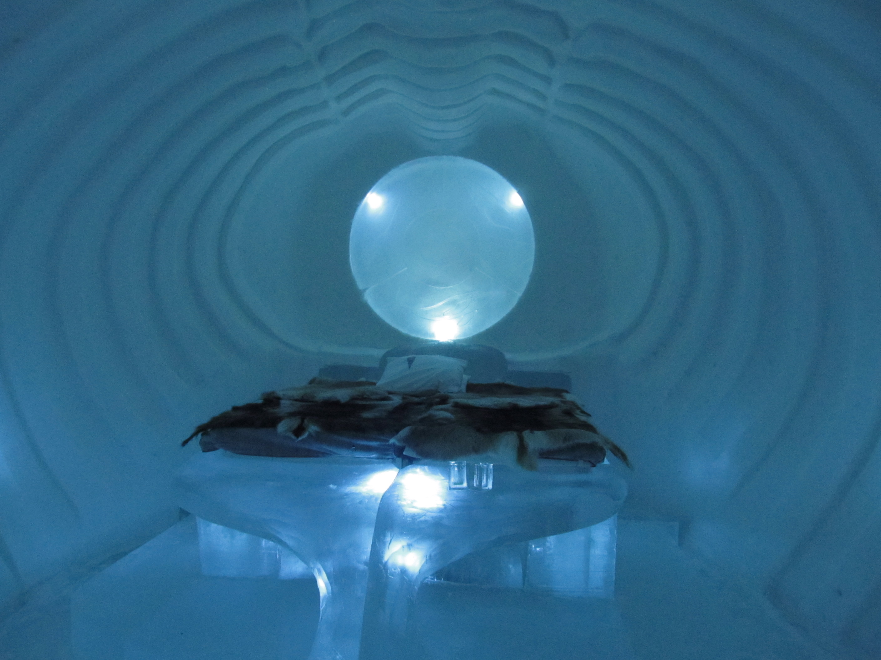 A 2012-13 room in the Icehotel in Jukkasjärvi, Kiruna municipality, Sweden.